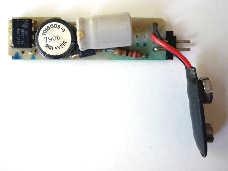 Boost converter from a TI calculator (generating 9 V from 2.4 V; device produced in 1979)